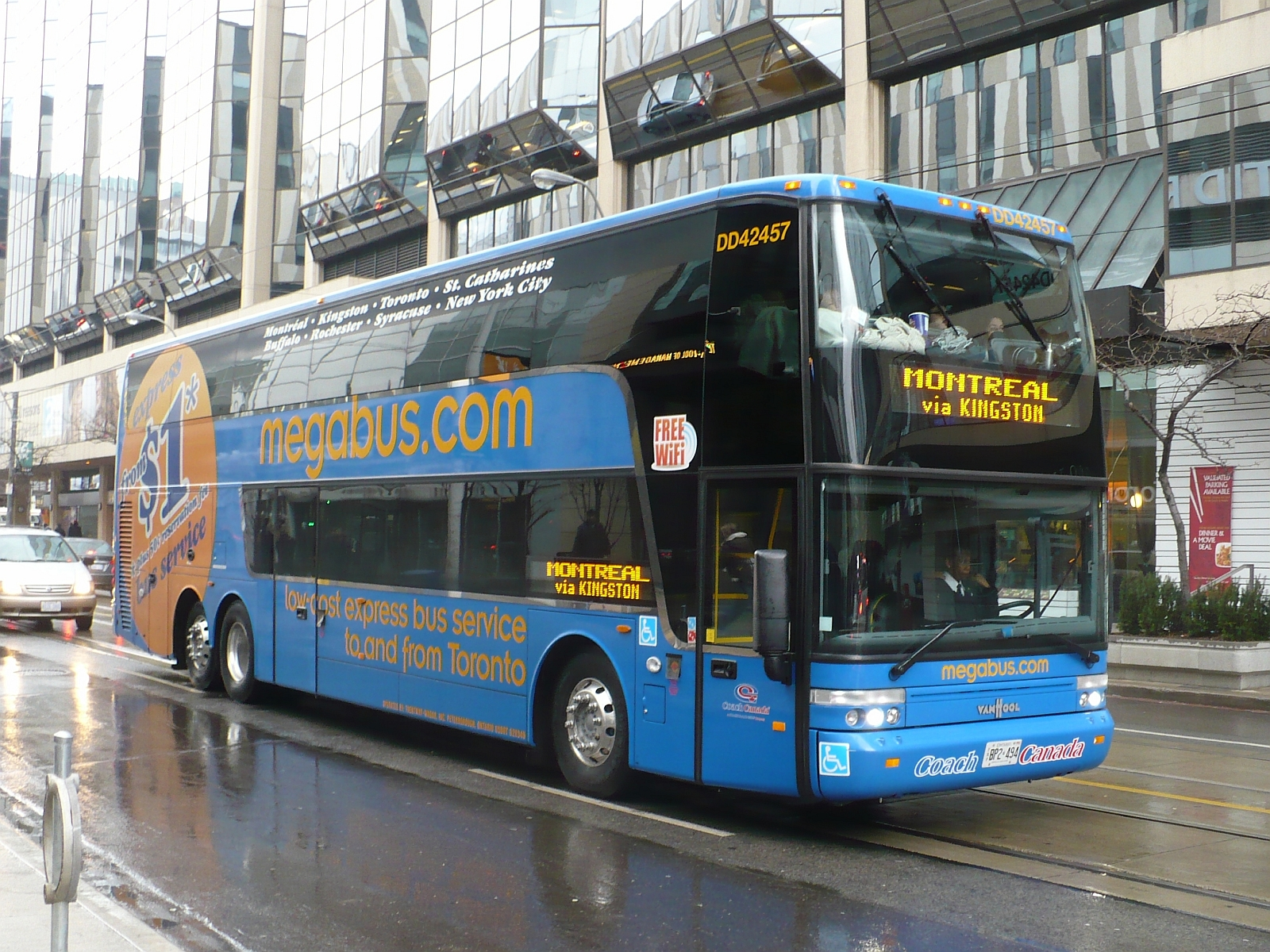 Coach Canada operated Megabus leaving downtown Toronto